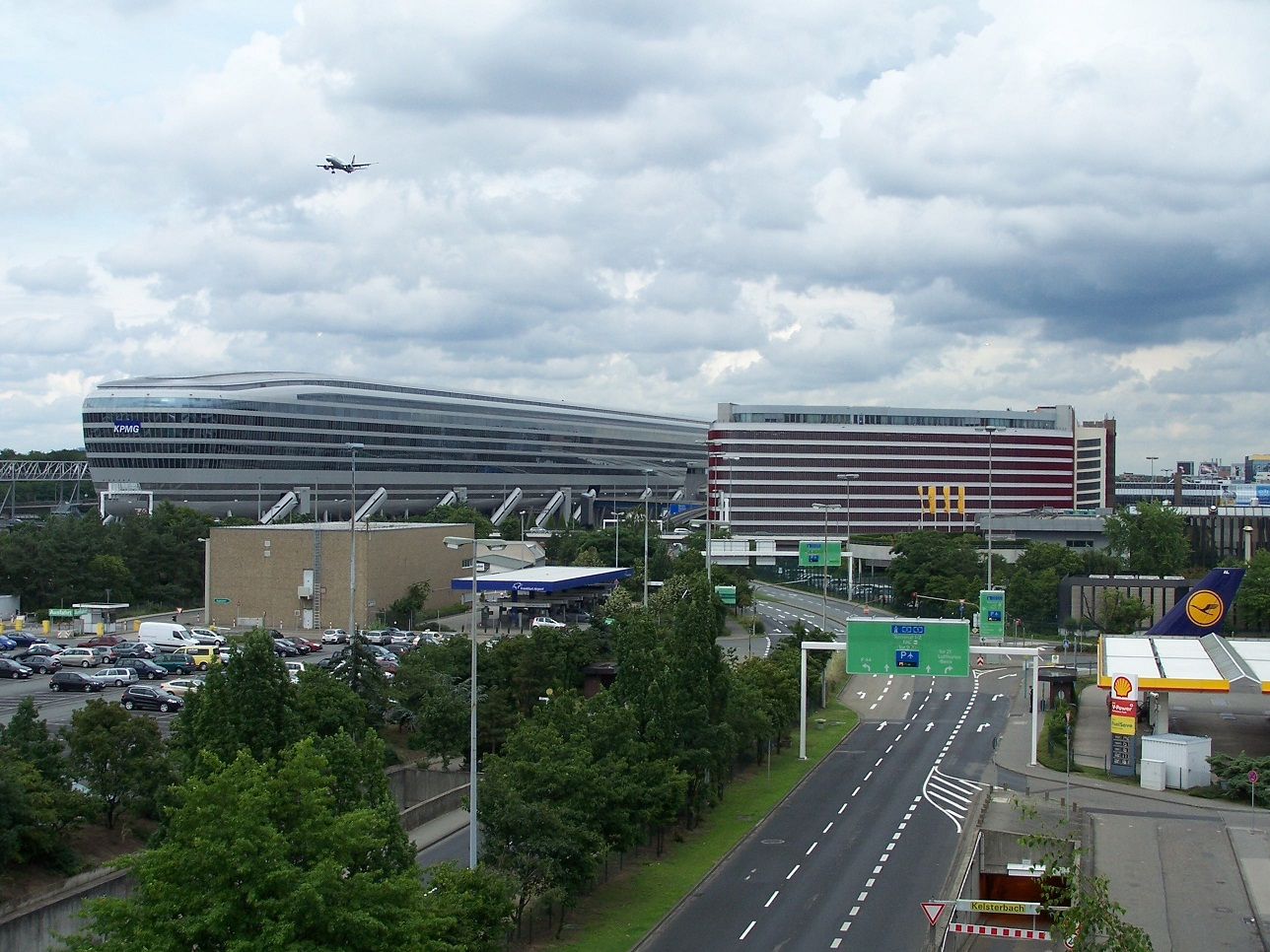 Office building "The Squaire" at Frankfurt Airport